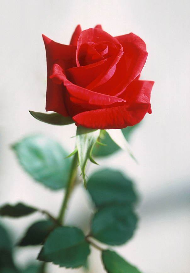 A red rose, symbol of love—and tasty treat for spider mites. This issue of the magazine looks at several ARS efforts to keep valuable floral and nursery crops like roses and woody ornamentals safe from the many pests that plague them. Photo by Peggy Greb.